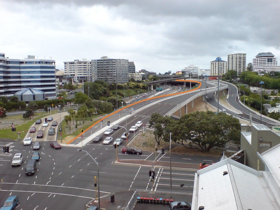 Looking southwest down at the Union Street / Nelson Street intersection; old Nelson Street off-ramp highlighted.